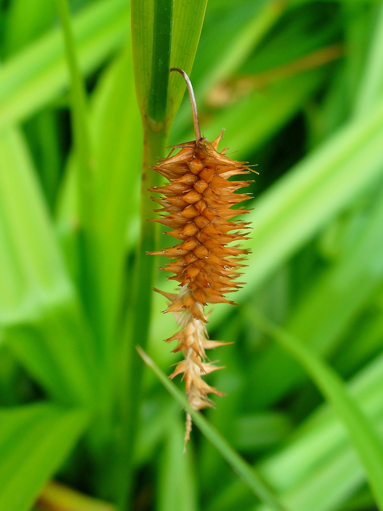 Carex pseudocyperus, Cyperaceae, Cyperus Sedge, female ear; Botanical Garden KIT, Karlsruhe, Germany.